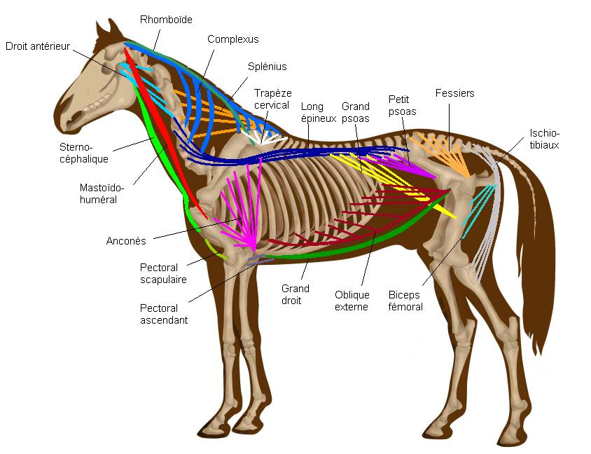 Muscles (part 1) of Equus Callibus (a common horse).